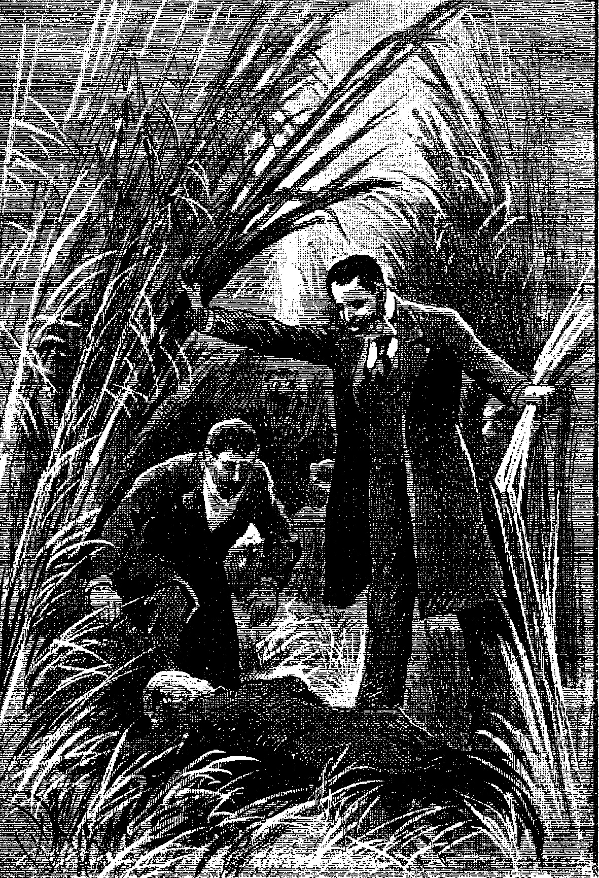 The Island of Doctor Moreau, translation to Russian, 1904, page 113